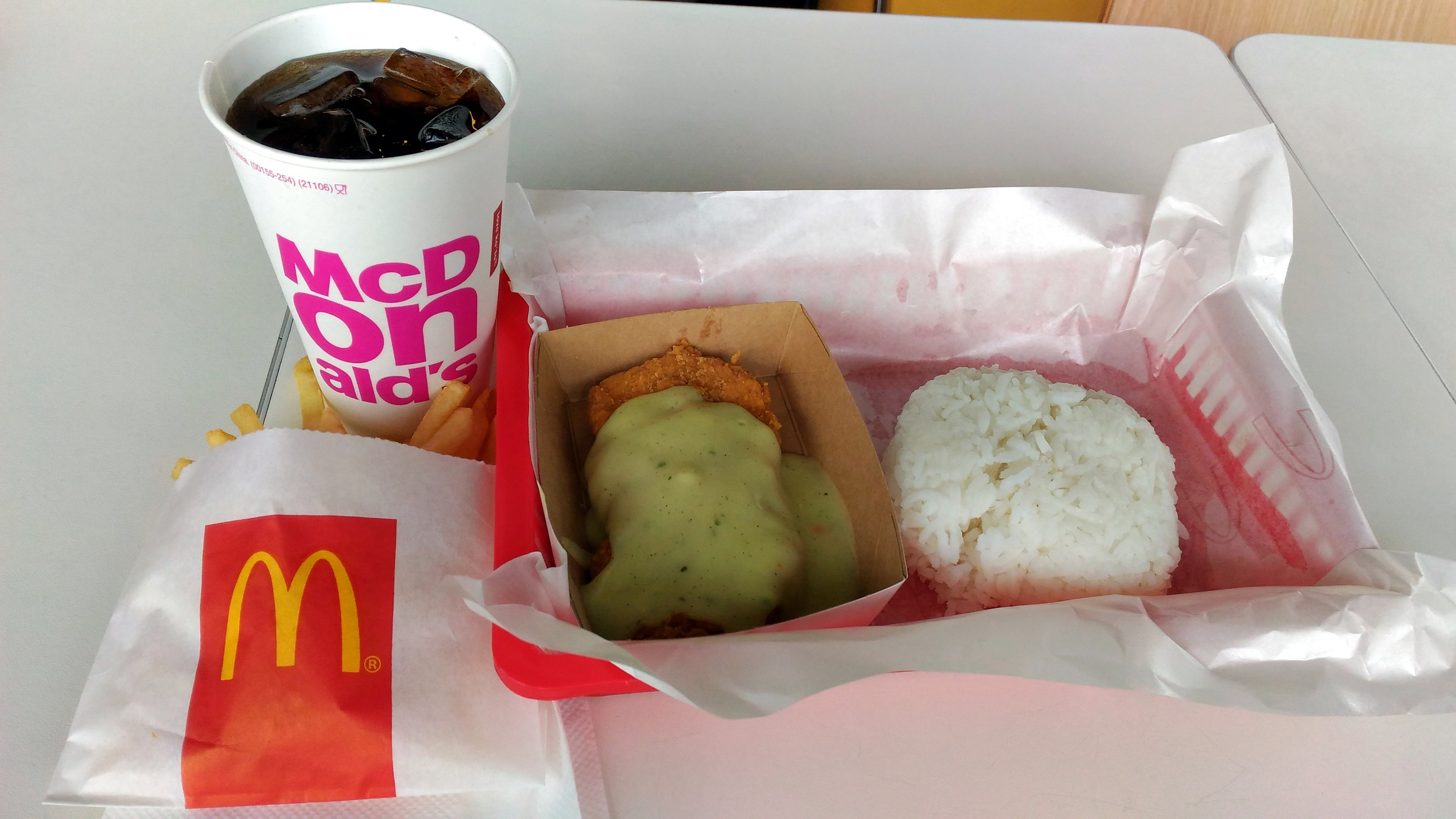 McDonald's "Chicken Fillet Ala King with Fries" McSaver Meal with Chicken Fillet topped with Cream Sauce, Plain Rice, Regular French Fries and Regular Coke. Price at the time the photo was taken was P 89.